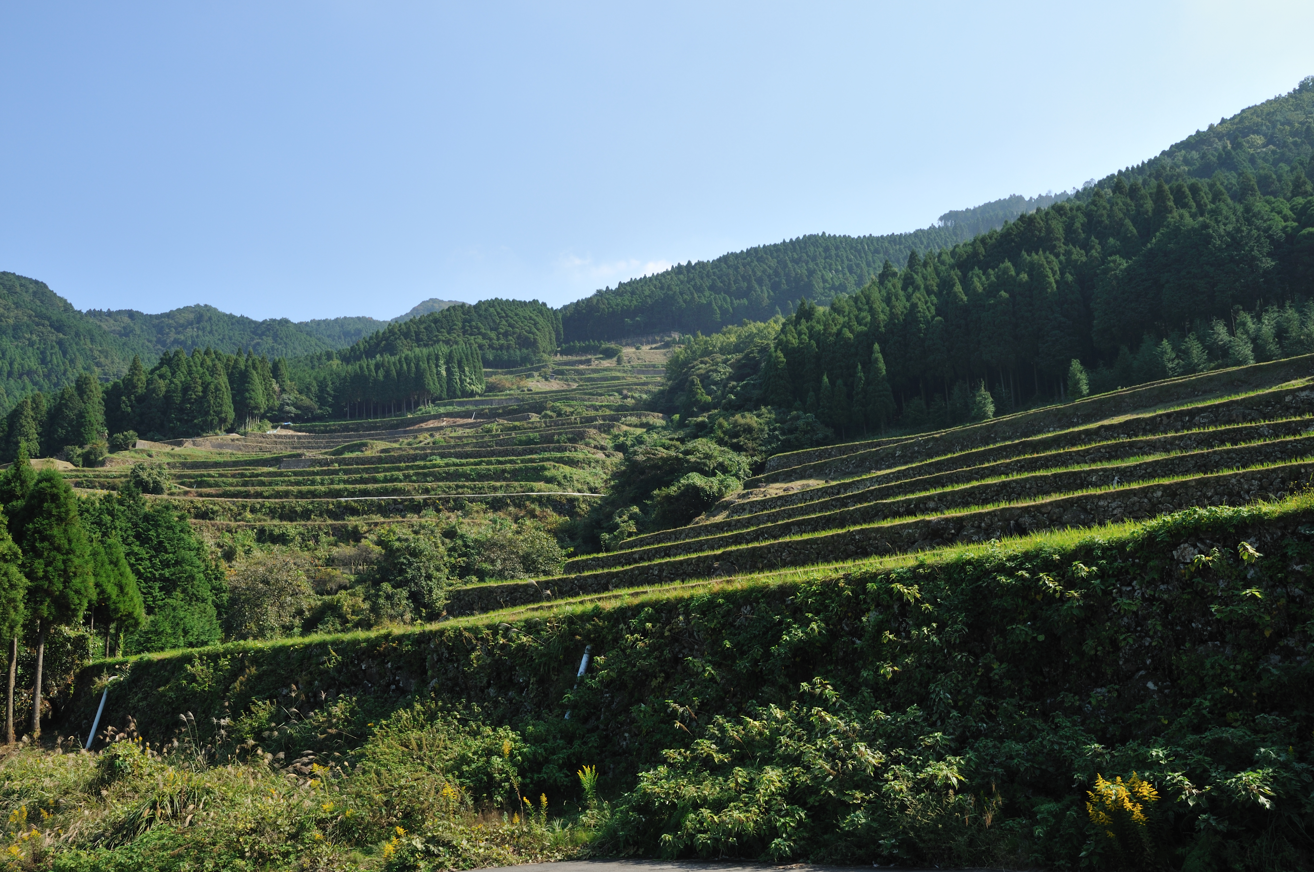 Rice terrace of Warabino(in Ouchi town, Karatsu city, Saga pref.).